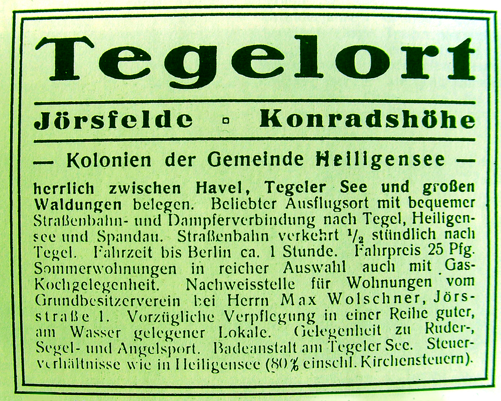 Holiday commercial of landowner club, Tegelort, Berlin